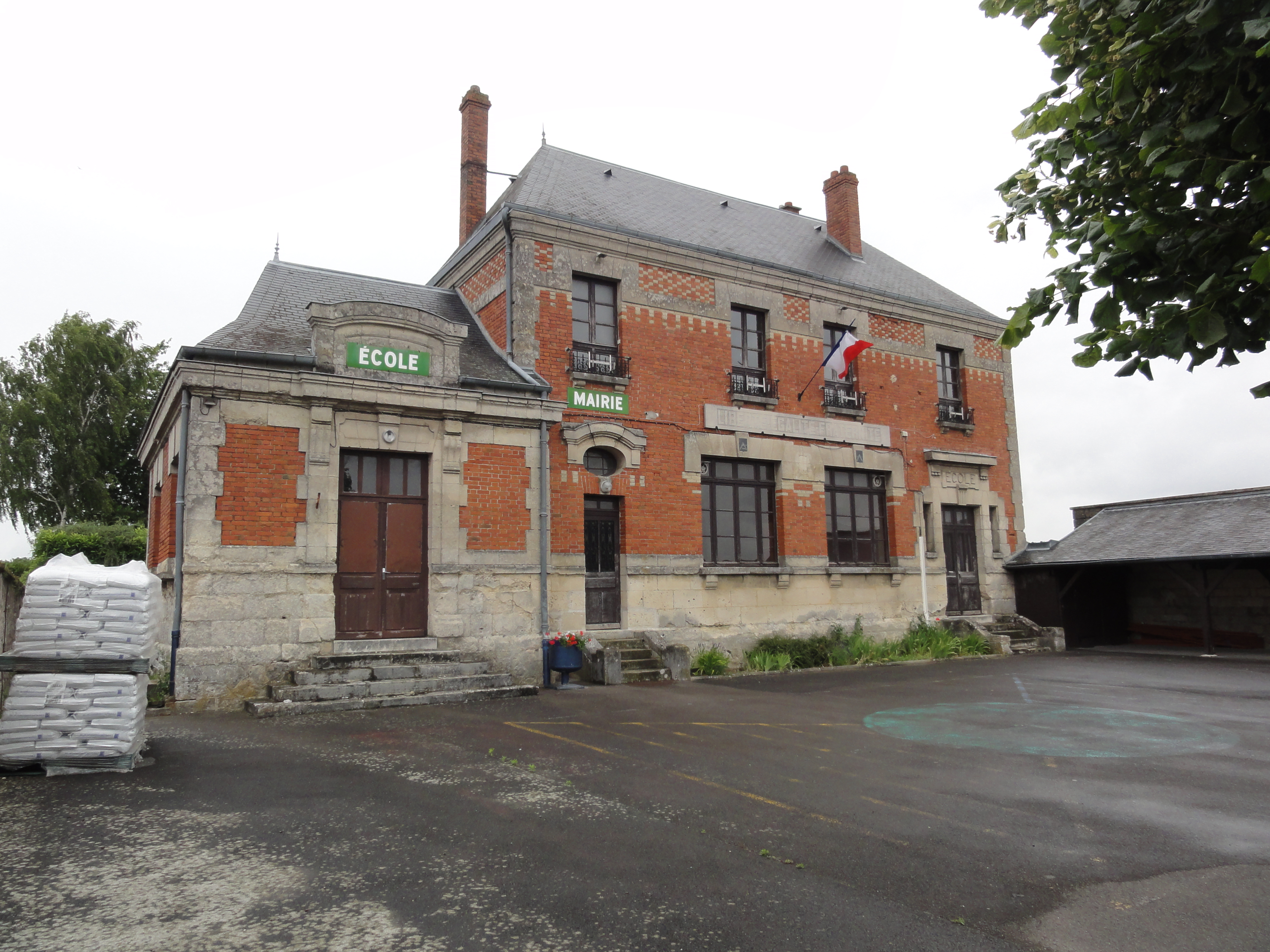 Clamecy (Aisne) mairie-école